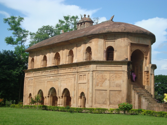 The double storeyed Ranghar Pavilion at Joysagar of Sivasagar was built by Ahom King, Pramatta Singha from 1744 to 1751 A.D. for watching games of birds and animal fights besides other cultural progammes. Its roof contains a design of a boat's reverse with crocodile shaped endings.